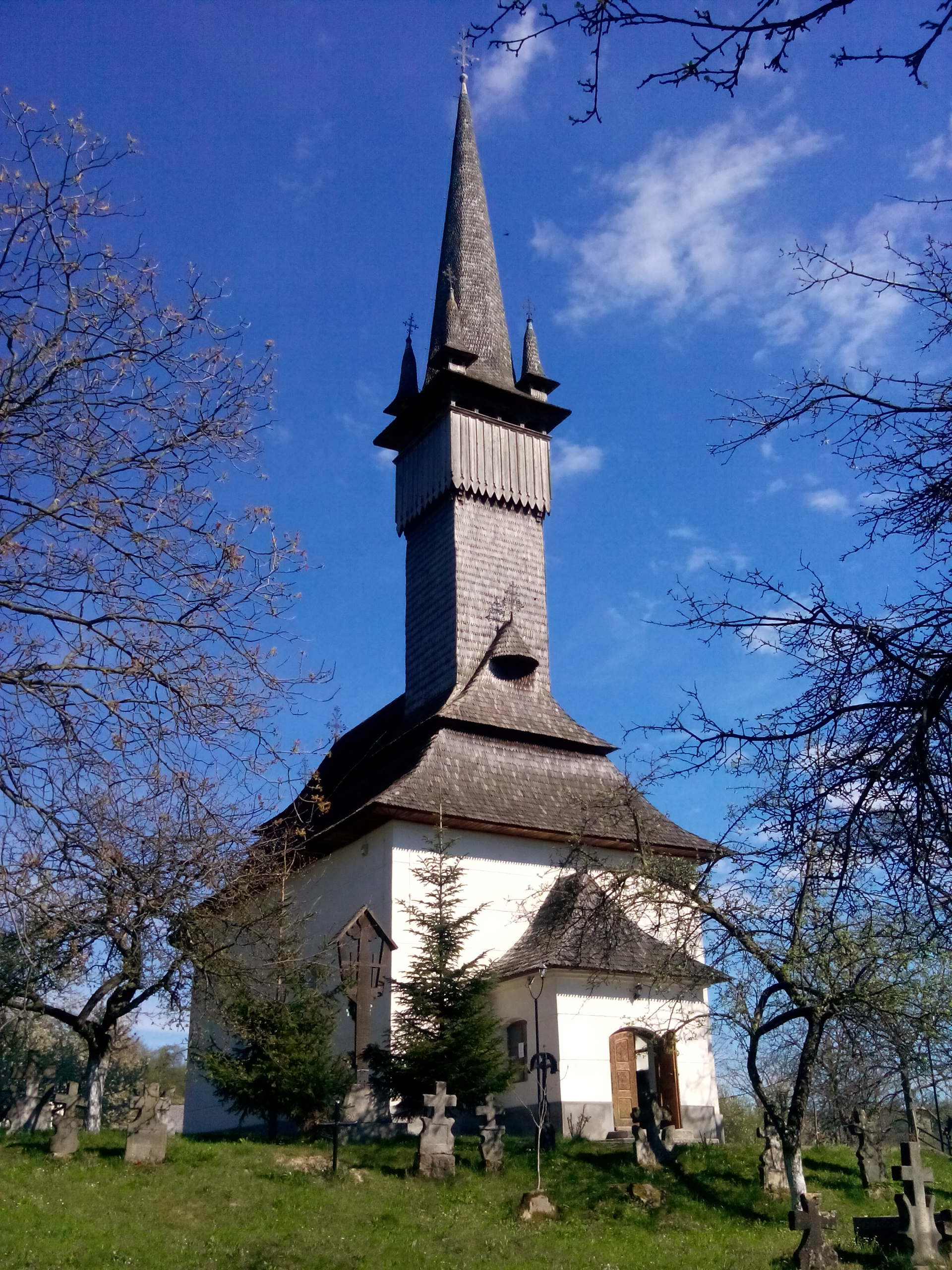 Saint Paraskeva's church in Cetățele, Maramureș, Romania